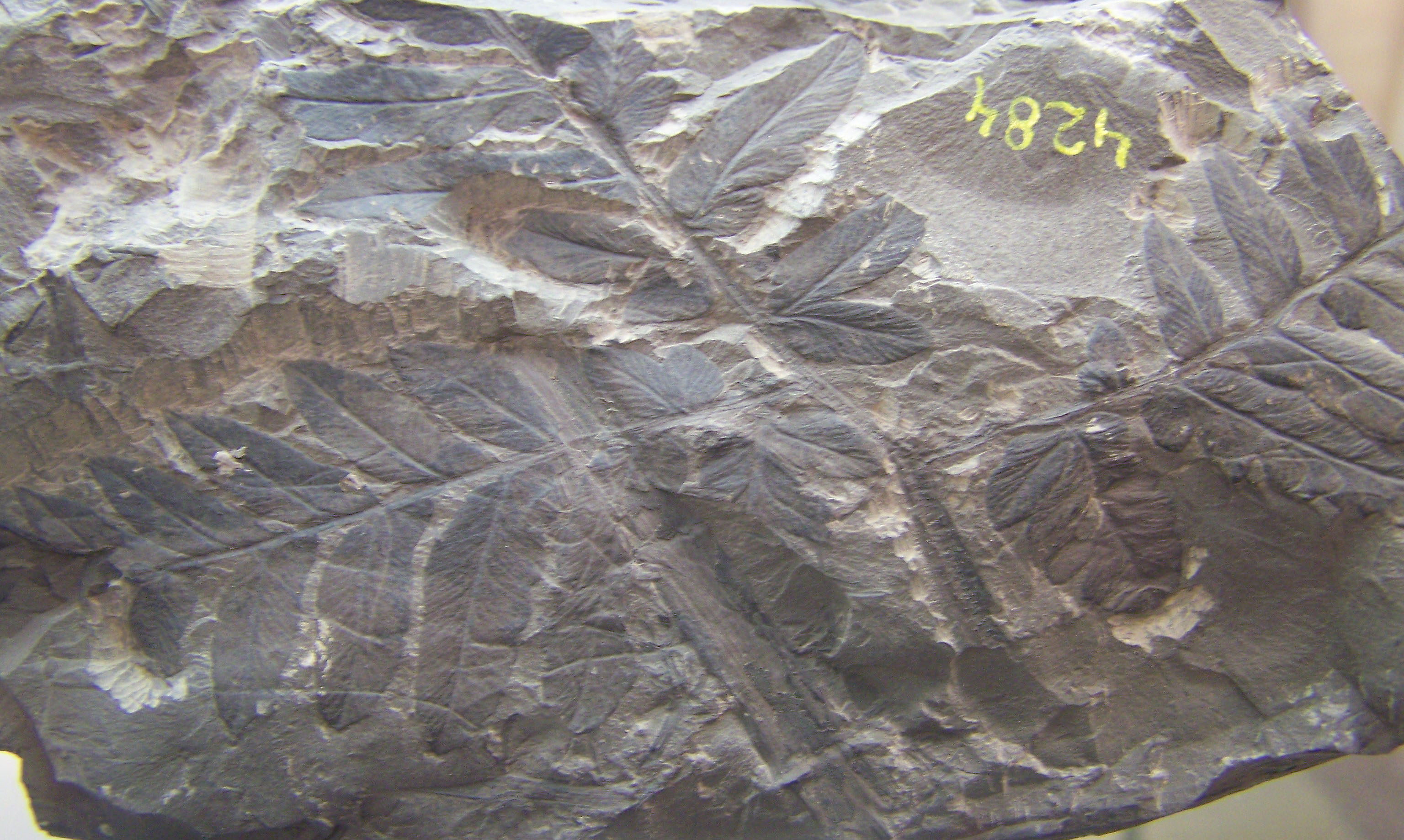 Fossils of the plant species Mariopteris sauveurii, Upper Carboniferous. This species was a climber. Picture ca. 25 cm long, collection of the Universiteit Utrecht.